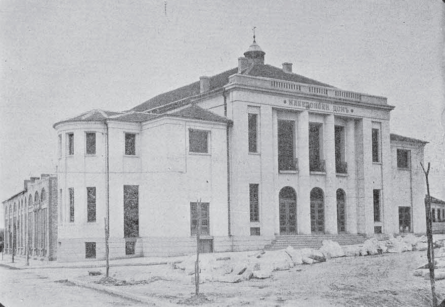 Macedonian Hall in Varna